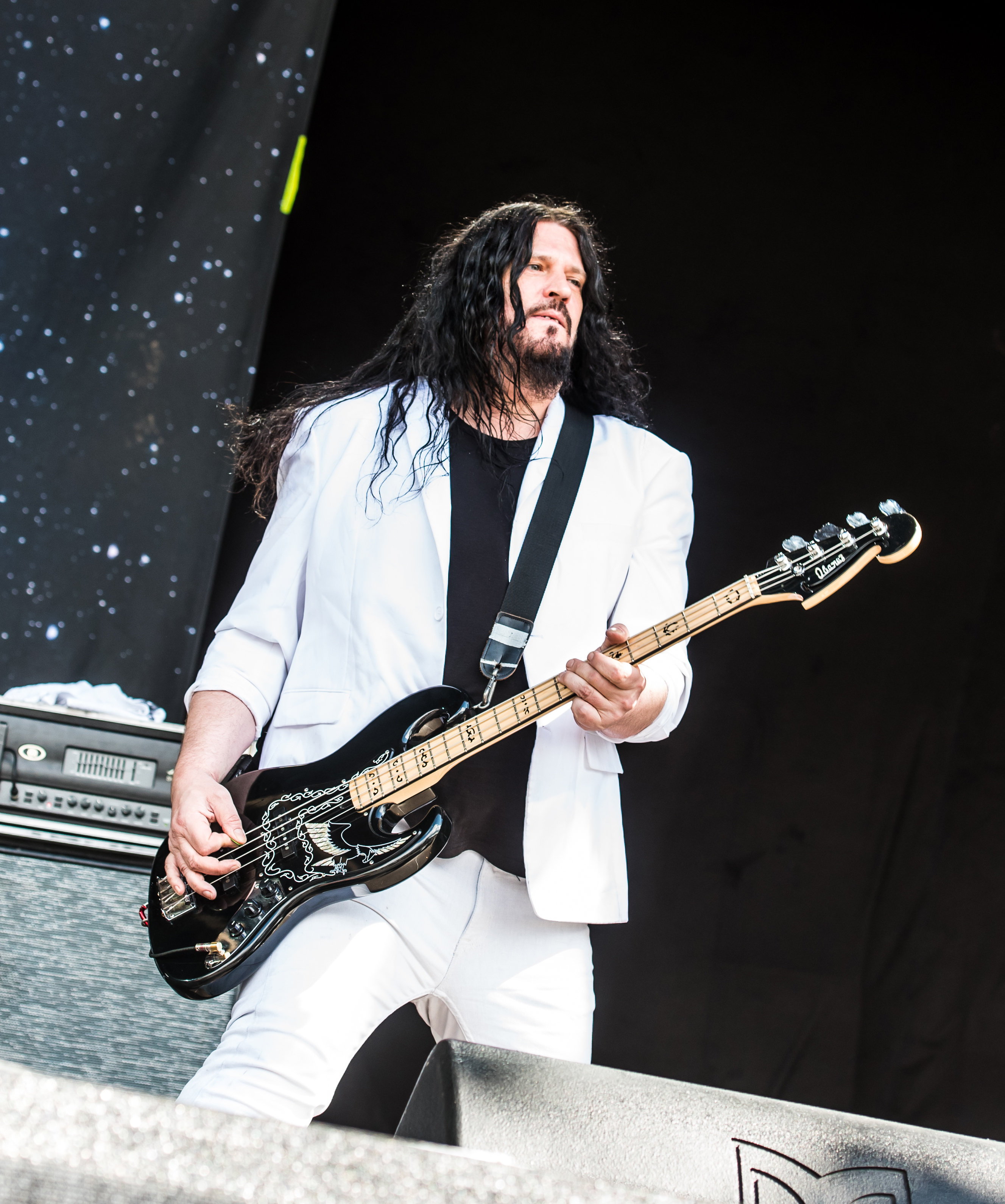 The Night Flight Orchestra playing at Reload Festival 2018